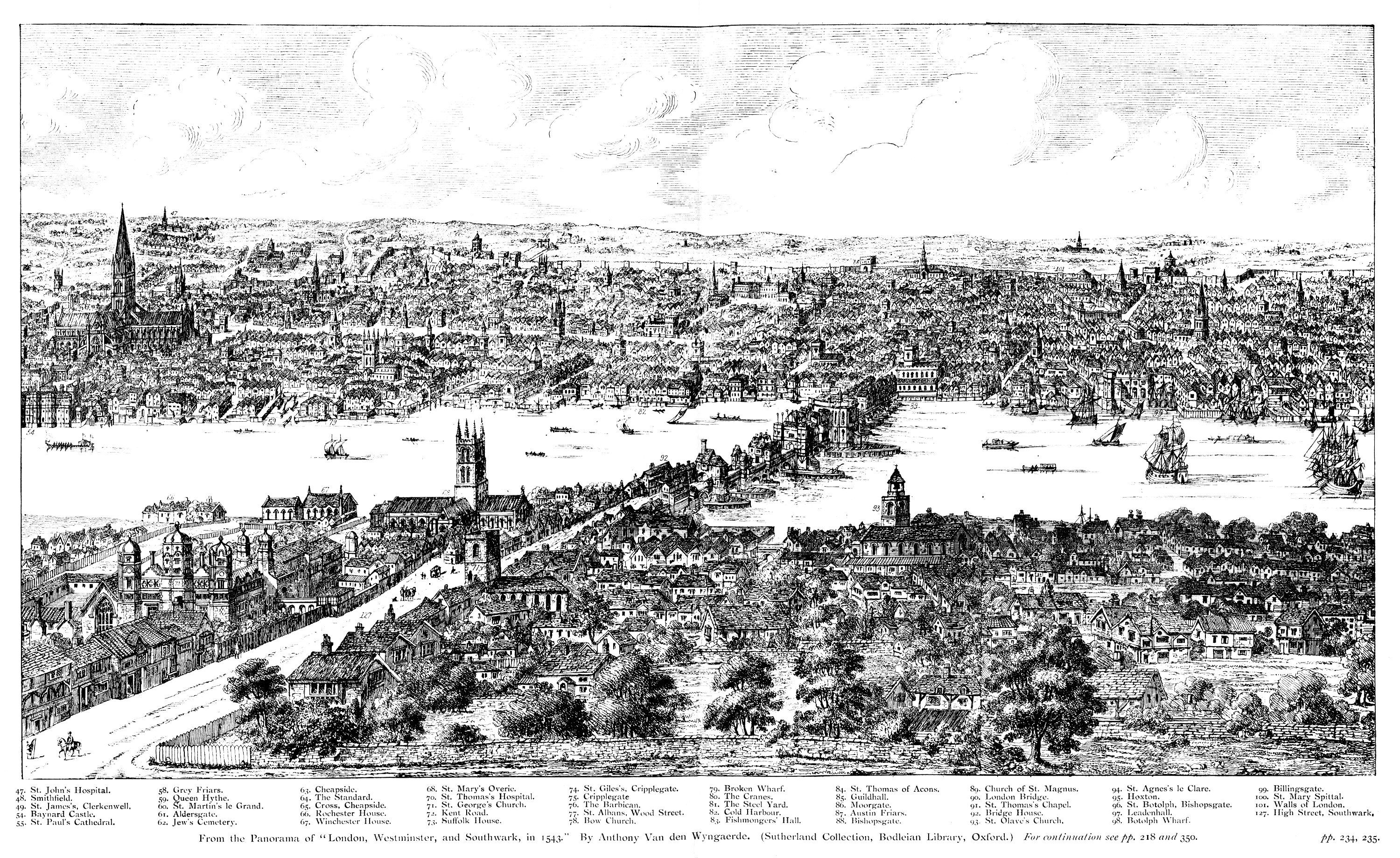 19th century engraving by Nathaniel Whittock from a drawing by Antony van den Wyngaerde (ca 1543-50). Whittock added innumerable alterations and additions. The map is therefore of less historical value.